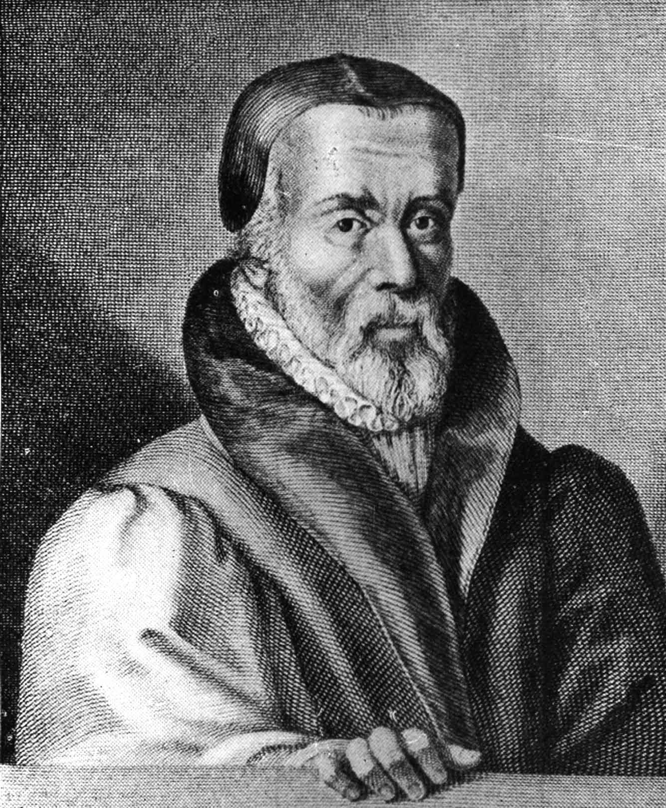 William Tyndale, Protestant reformer and Bible translator. Portrait from Foxe's Book of Martyrs.